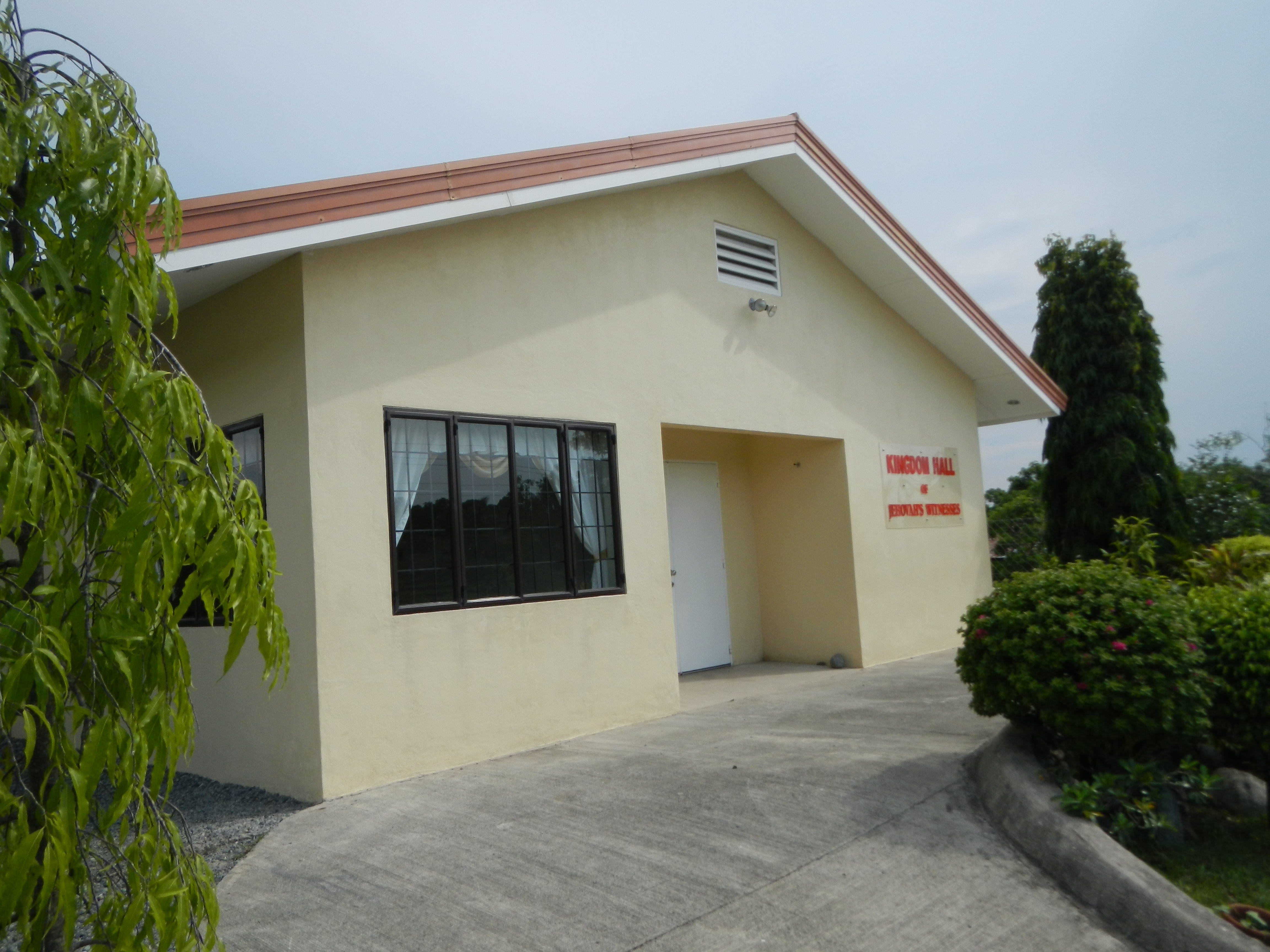 Barangay Labney, San Jose Welcome Arch,[1] [2]Coordinates: 15°30'40"N 120°29'53"E ; The Church of Jesus Christ of Latter-day Saints[3], Kingdom Hall of Jehovah's Witnesses[4] ------San Jose, Tarlac [5] is a third-class municipality in the province of Tarlac,[6] Philippines. According to the 2010 census, it has a population of 33,960 people. It was created into a municipality pursuant to RA 6842; ratified on April 21, 1990; taken from the municipality of Tarlac City. San Jose is politically subdivided into 13 barangays. [7] Land Area: 397.30 km² ZIP Code: 2318 Coordinates: 15°25'46"N 120°21'15"E [8] [9] This place is situated in Tarlac, Region 3, Philippines, its geographical coordinates are 15° 29' 0" North, 120° 38' 0" East and its original name (with diacritics) is San Jose: Geographical location: Tarlac, Region 3, Philippines, Asia.[10] Monasterio de Tarlac May 7, 2013 Tarlac mayoralty candidate Rudy Abella shot dead ---------[N.B. May 27, Monday, 2013 Photography of Rosario, San Jose, Tarlac [11] : 30% cloudy and 70% sunny weather using my Nikon AW 100 waterproof shockproof camera. From Bulacan at 10:05 a.m., I took photo at 12:52 pm of Tarlac City and reached TRP (Tarlac Recreational Park) of San Juan de Valdez, San Jose, Tarlac at 2:29 p.m. and finished photography of the town's landmarks at 4:18 pm then took photos of Tarlac Cathedral and Cory Aquino Monument at 5:31 p.m., and arrived at Bulacan at 9:10 pm after 4+ hours of travel by bus, and started uploading via slow internet at 9:40 pm - I hereby certify that these raw, original and unedited photos are exclusive for Commons and Wikipedia never uploaded in any Internet or any site, and for the public domain without any condition.]